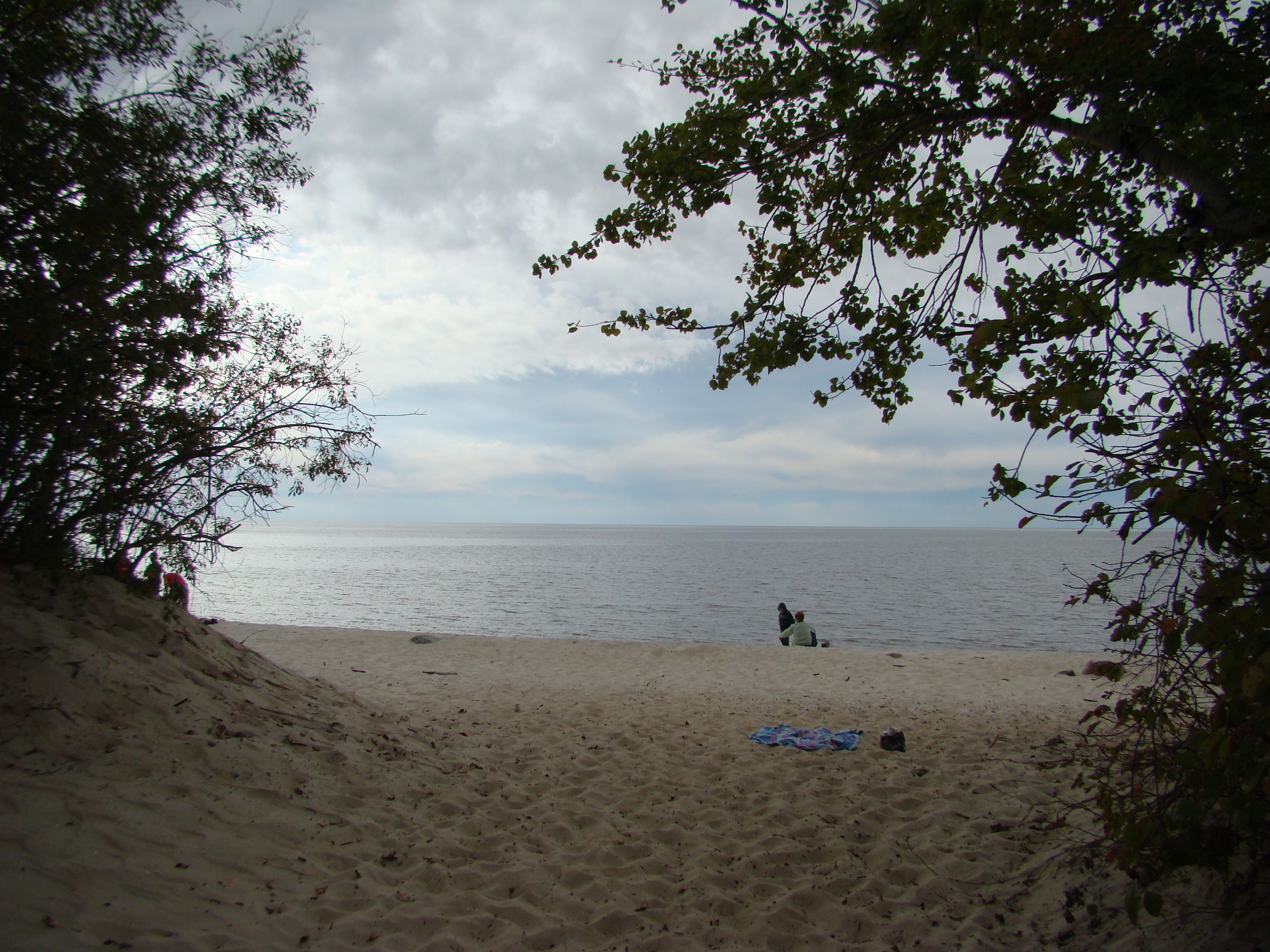 Victoria Beach in Lake Winnipeg Manitoba Canada